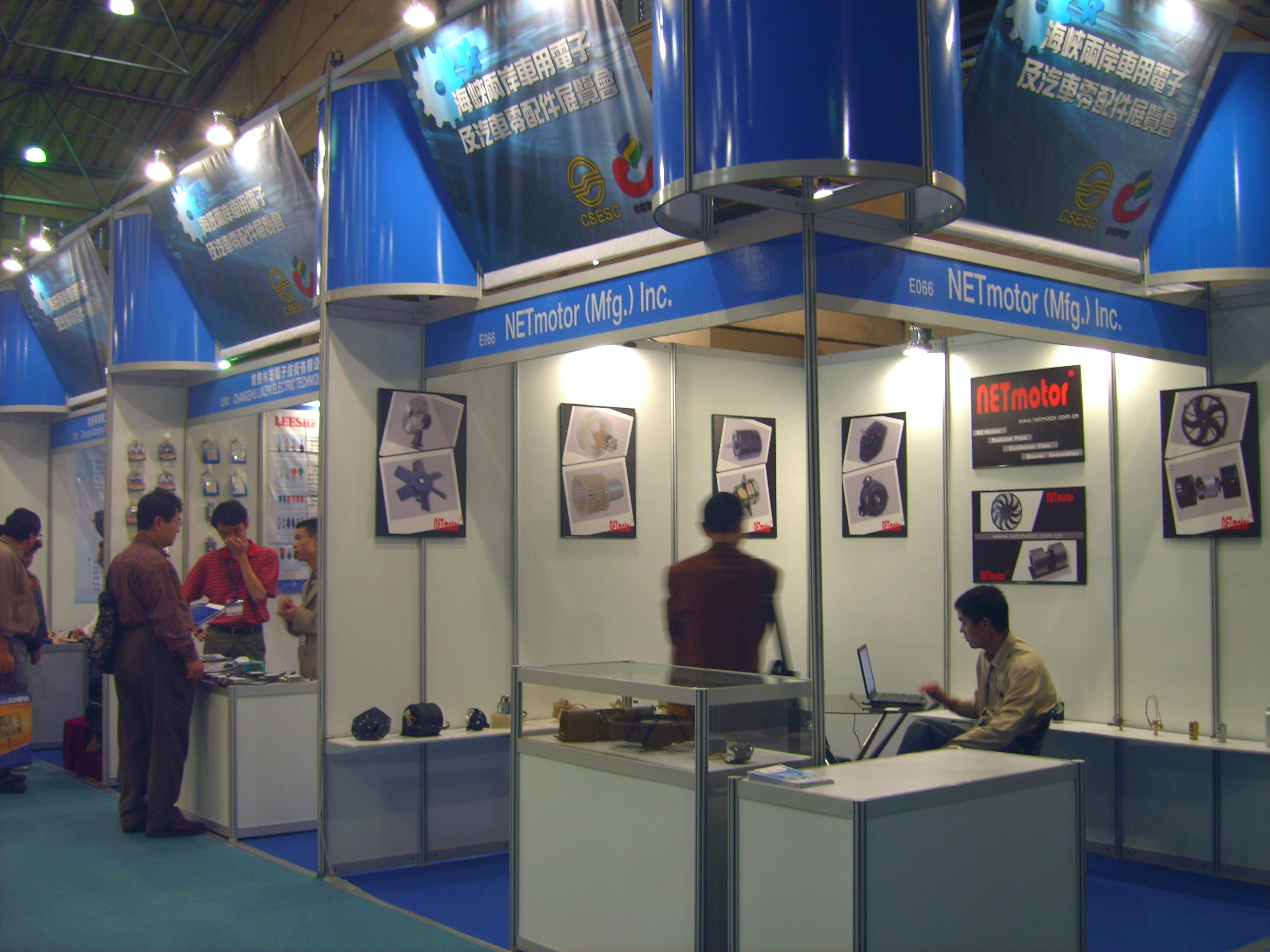 Cross Strait Pavilion at 2007 Taipei AMPA.